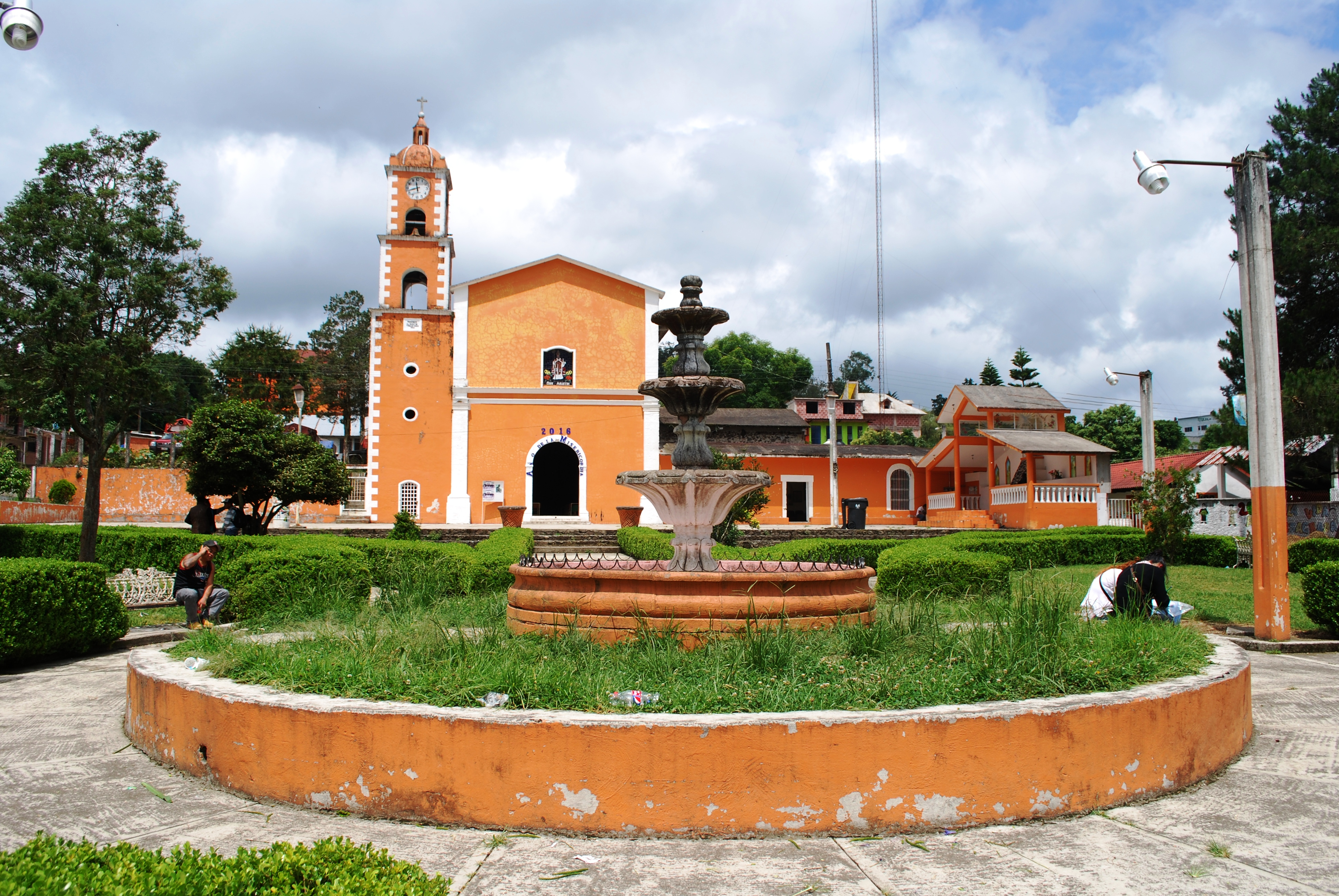 Facade of the parish of San Agustin in Tenango de Doria, Hidalgo, Mexico